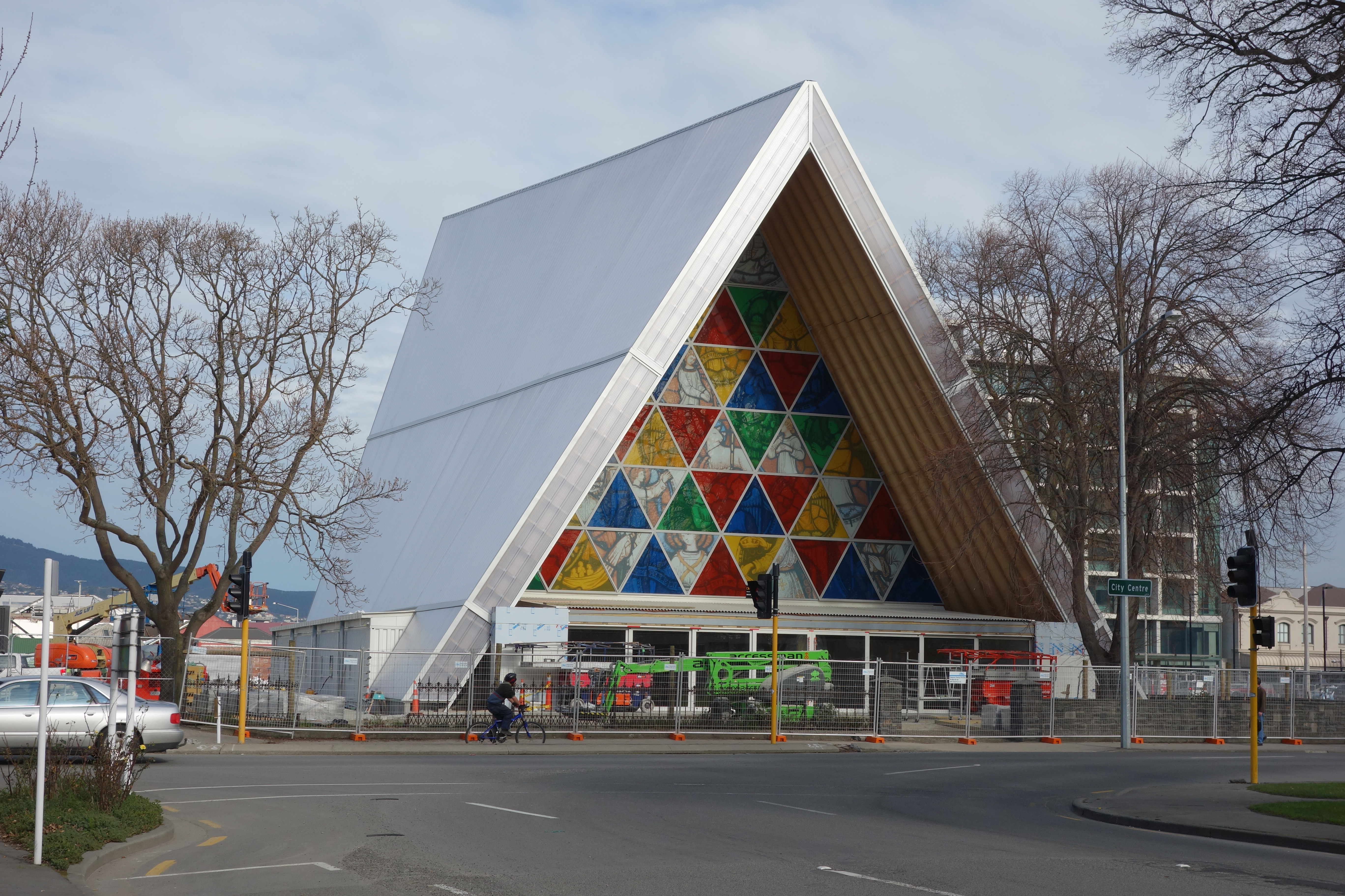 Cardboard Cathedral in July 2013.